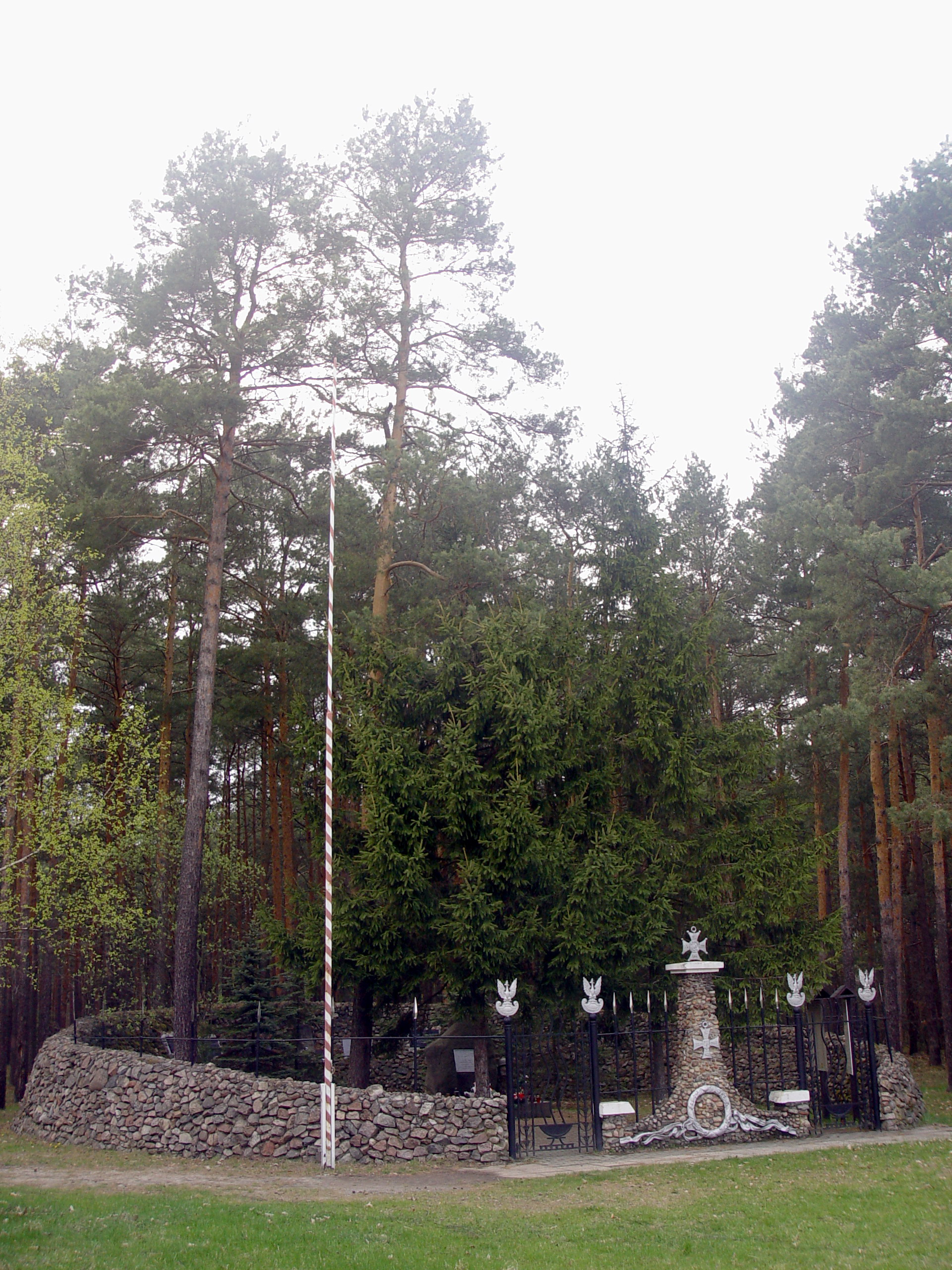 Hubal's Sconce - Place of death Major Henryk Dobrzański aka "Hubal" near Anielin (a village in the administrative district of Gmina Poświętne, within Opoczno County, Łódź Voivodeship).